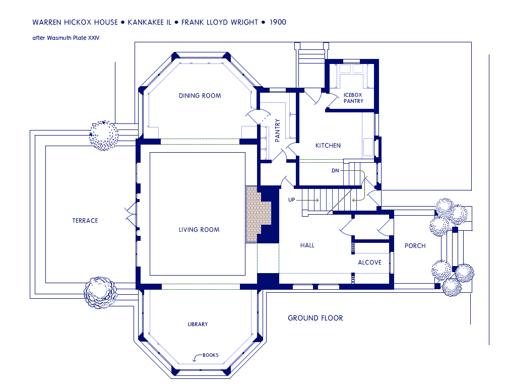 Ground floor plan of the Warren Hickox house, Kankakee IL, designed by Frank Lloyd Wright in 1900. After Wasmuth plate XXIV.